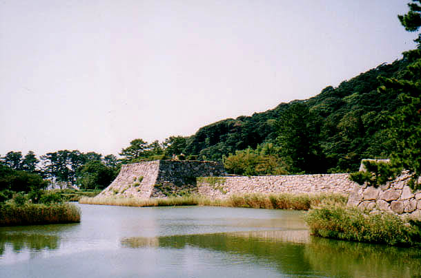 the keep base of Hagi Castle